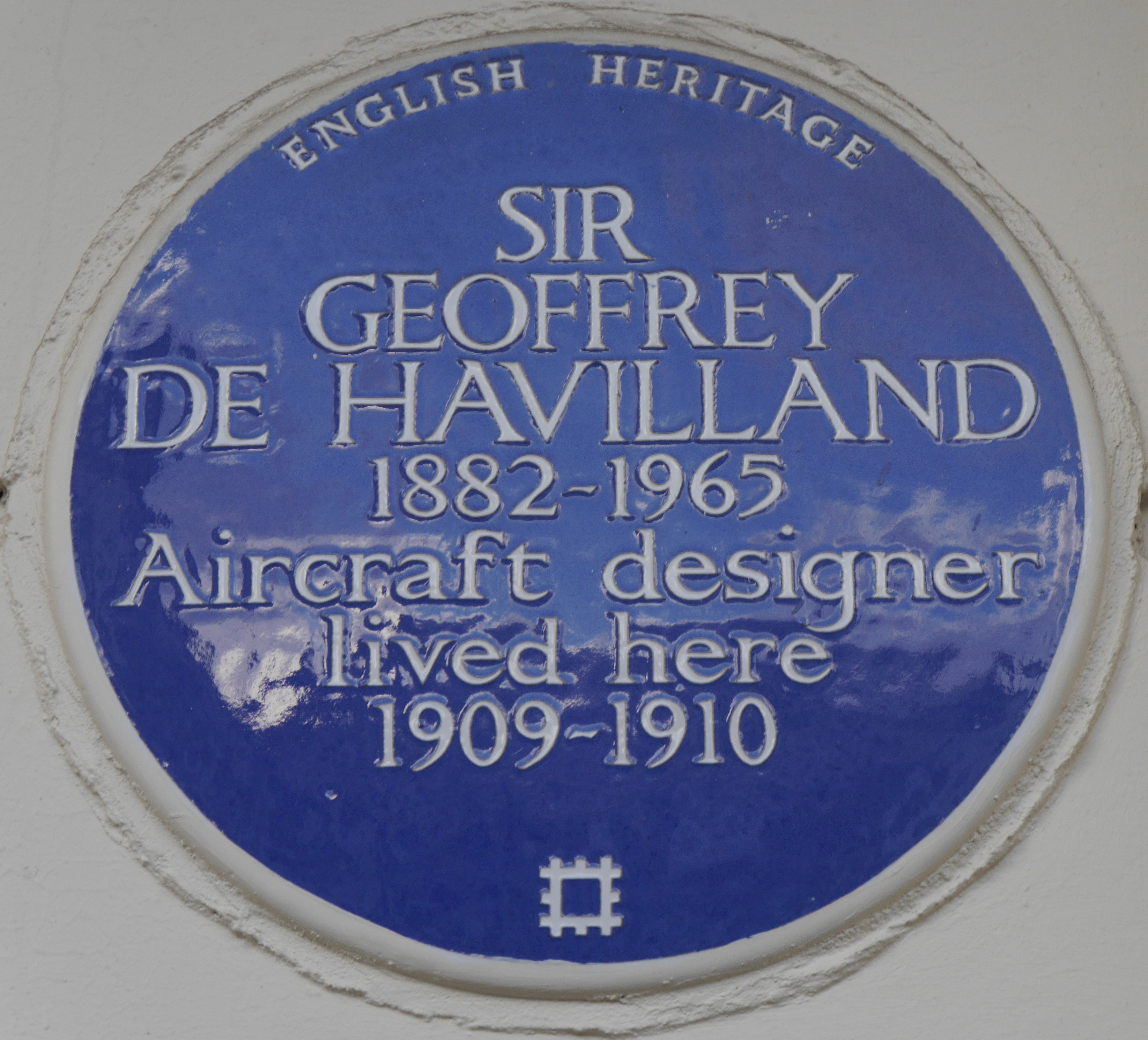 Blue plaque erected in 2001 by English Heritage at 32 Baron's Court Road, Barons Court, London W14 9DT, London Borough of Hammersmith and Fulham